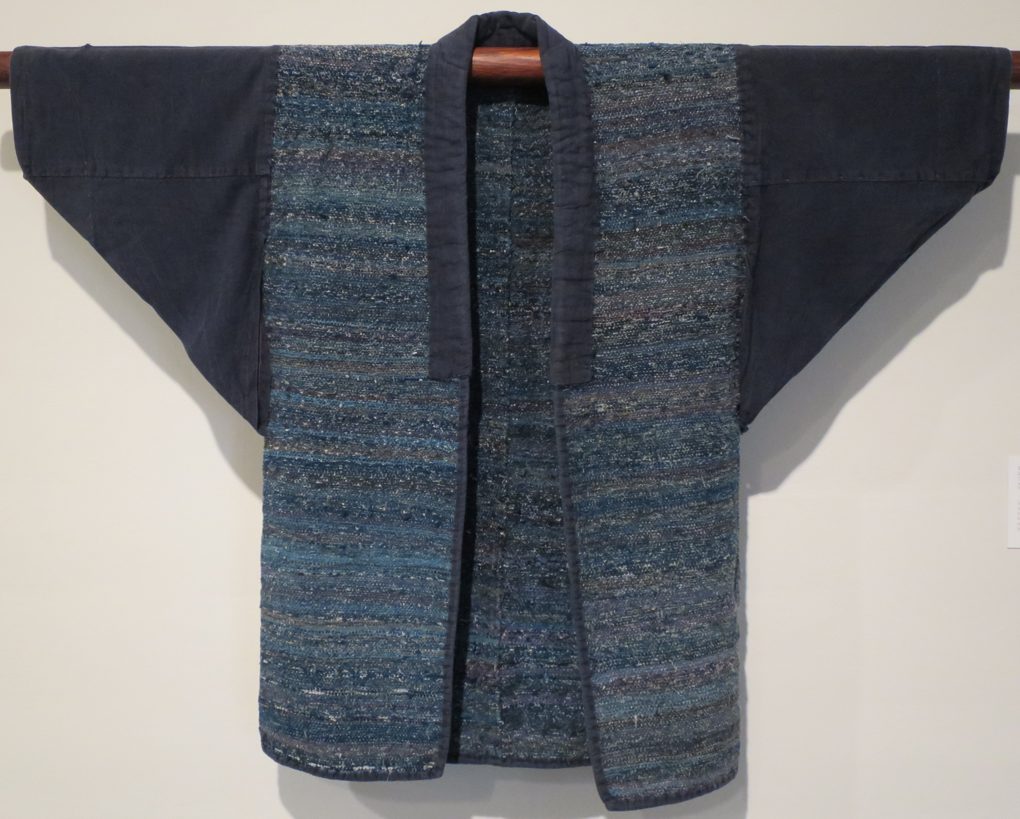 Sakiori (rag woven) work jacket from Niigata, Japan, Taisho period (1912 - 1926), cotton, sakiori (rag woven), plain weave and sashiko (running stitch embroidery), Honolulu Museum of Art, accession 9074.1